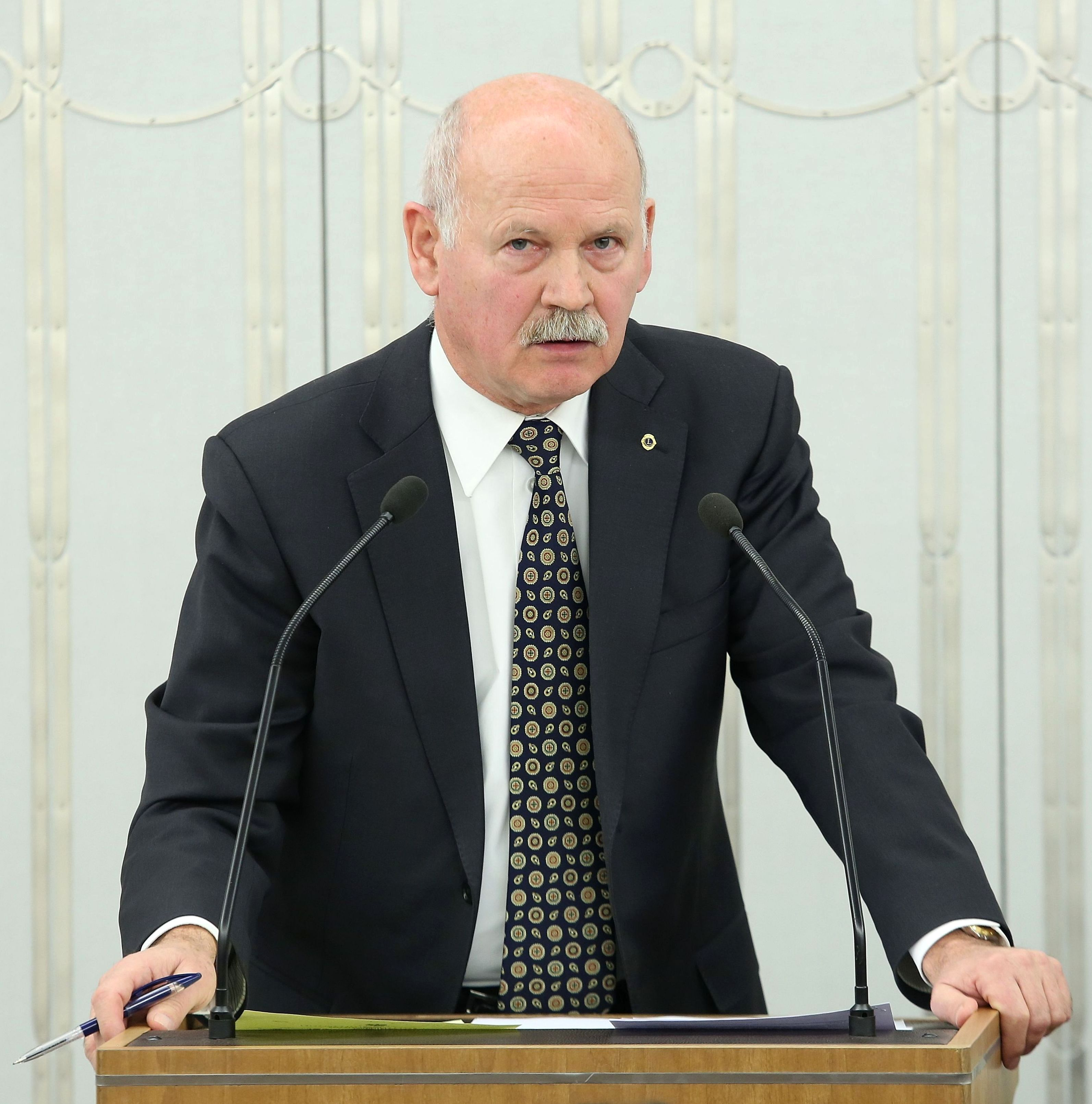 Senator Witold Gintowt-Dziewałtowski. 48th sitting of the Polish Senate